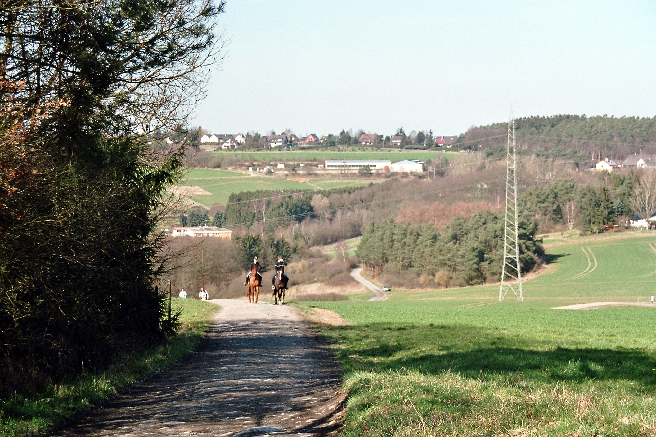 View to Kalenborn